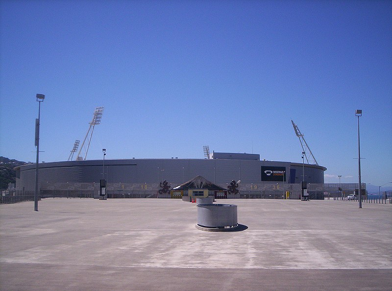 The main entrance to Westpac Stadium. January 2005, Ian Ritchie.